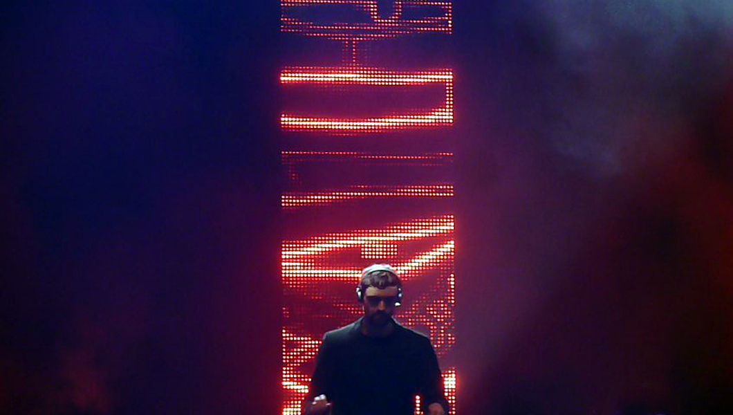 Electrosexual DJing in 2014